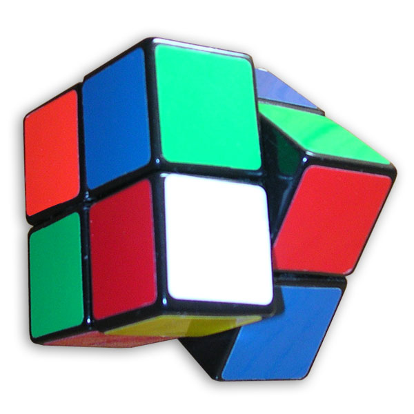 Pocket Cube with a twisted side